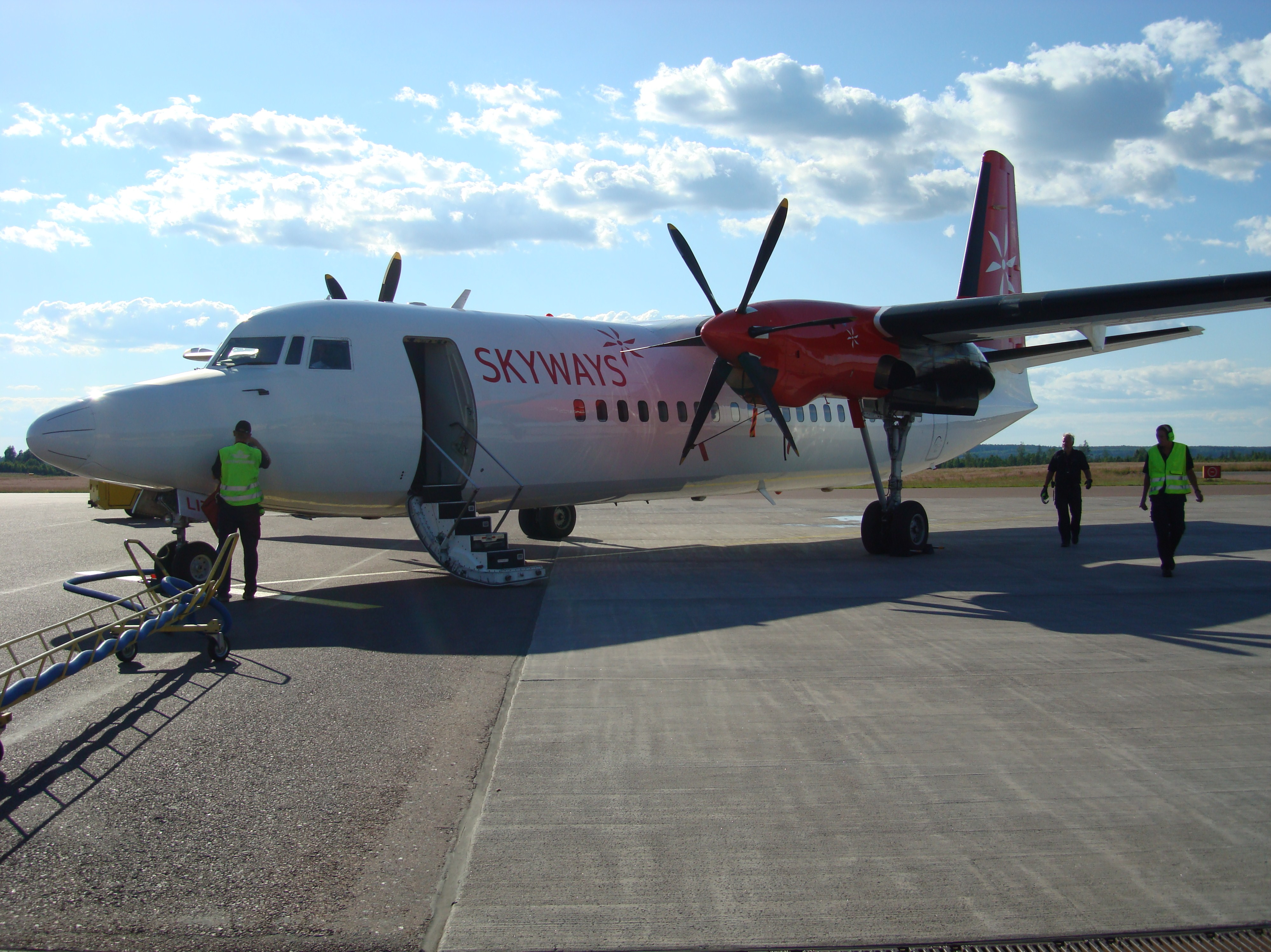 A Fokker 50 from Stockholm has arrived to Karlstad